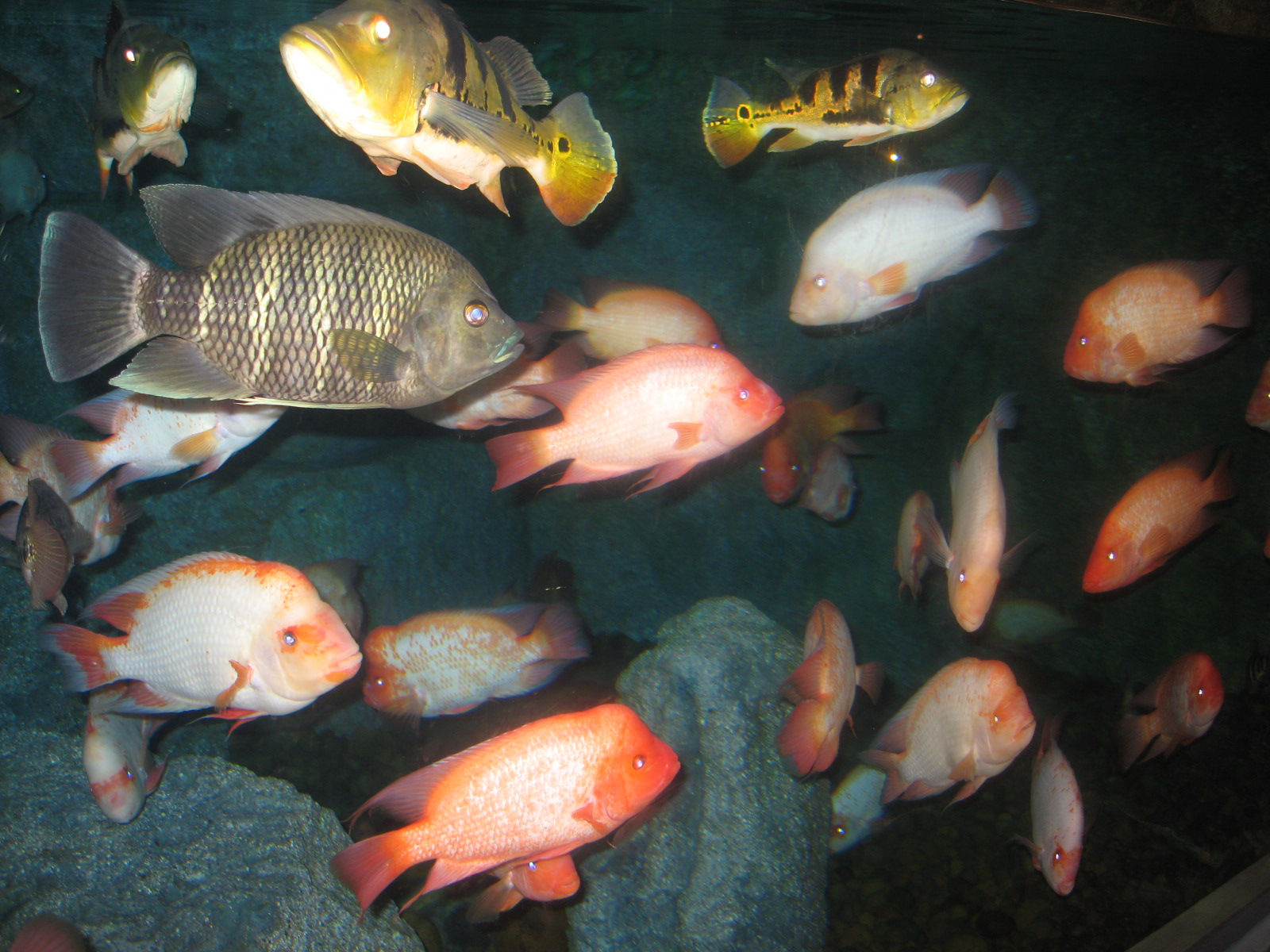 Siam Ocean World. Taken by Terence Ong in June 2006.